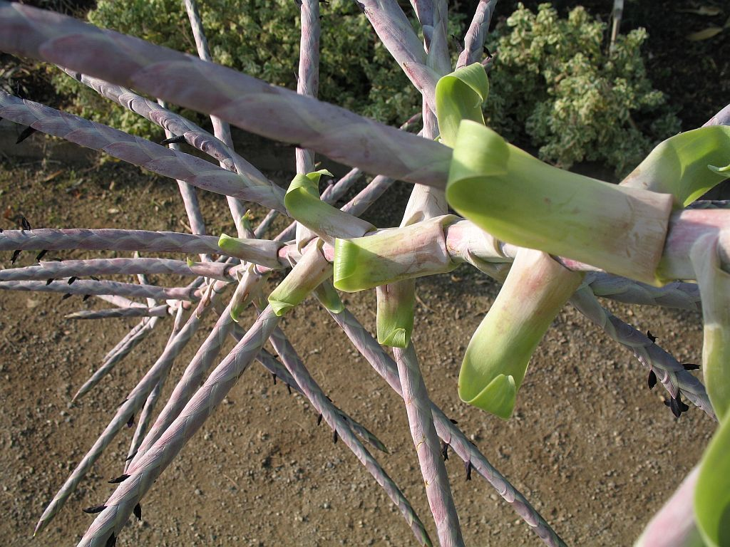 Tillandsia teres in cultivation at the Botanical Garden of Heidelberg, Germany.